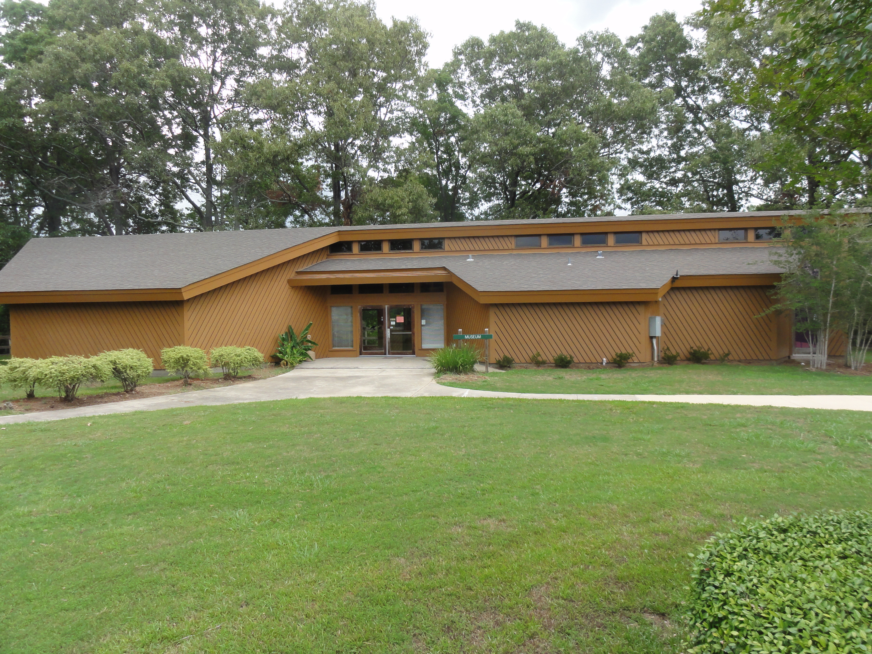 Archaeology Museum at Poverty Point State Historic Park in Poverty Point Louisiana.